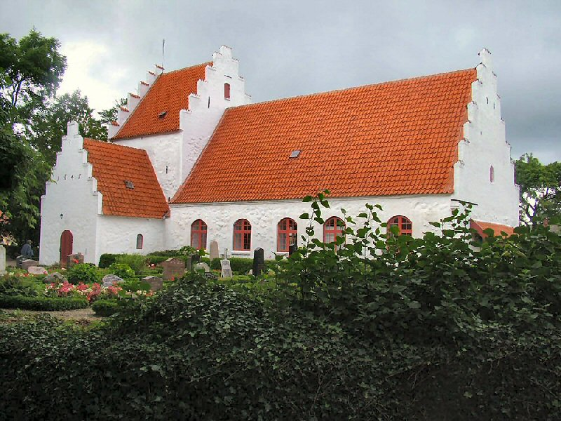 Church of Lyø (Lyø kirke, Lyø sogn, Fåborg Provsti, Fyens Stift as pr. 1. january 2005), situated on the Danish island of Lyø, the church believed to be build around 1600. Photo taken by Jørgen Larsen, 2005-07-30.